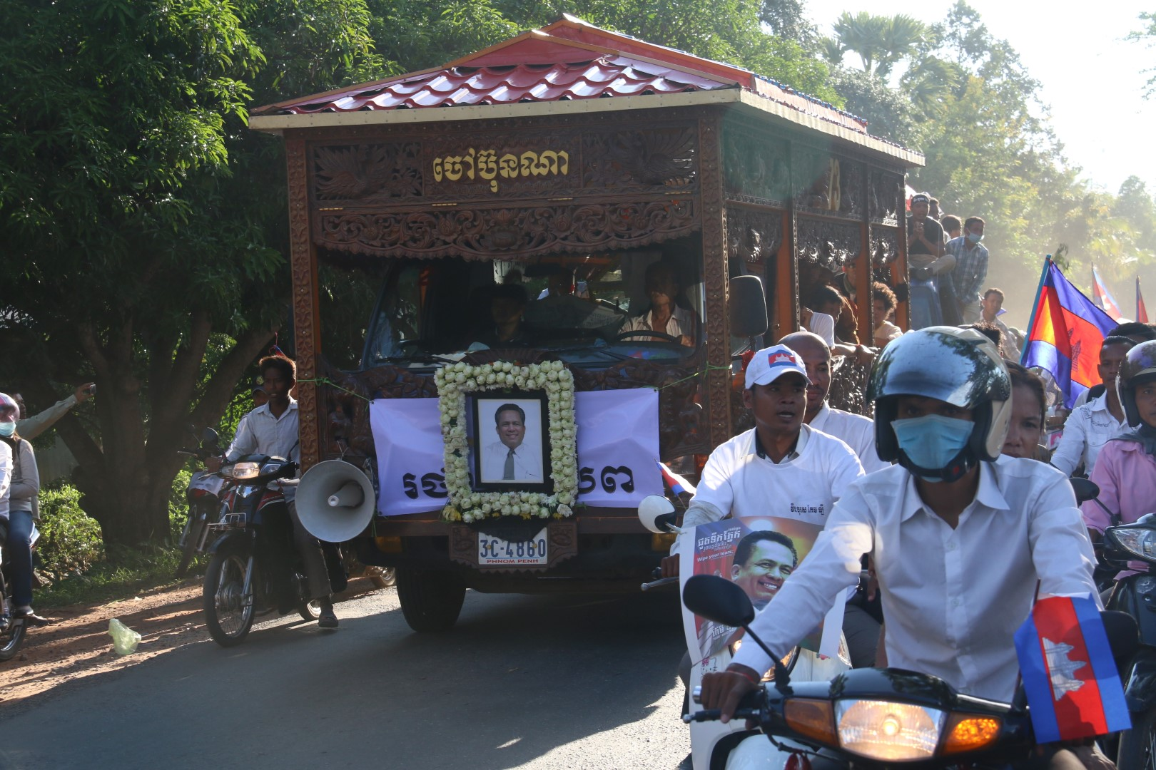 Dr. Kem Ley's Funeral procession to his hometown in Takeo Province, two weeks after his assassination on 10 July 2016.